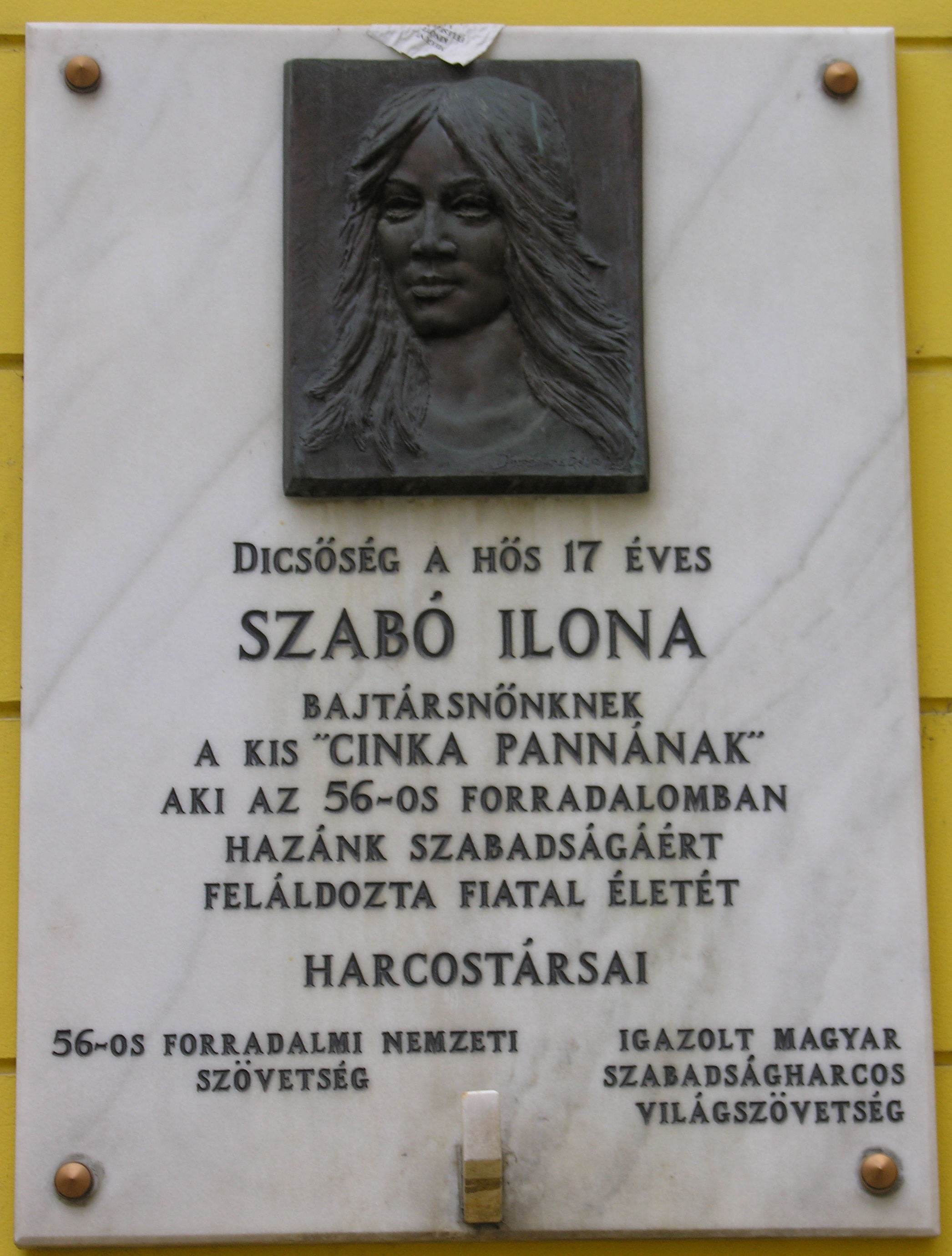 Commemorative plaque of Ilona Szabó in Budapest District VIII, Corvin Alley No 1 (Corvin Film Palace)